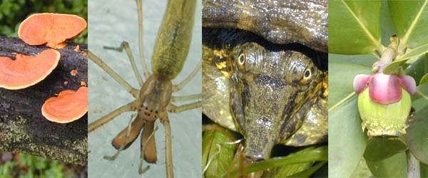 Biology montage. Photographs donated by Eric Guinther.